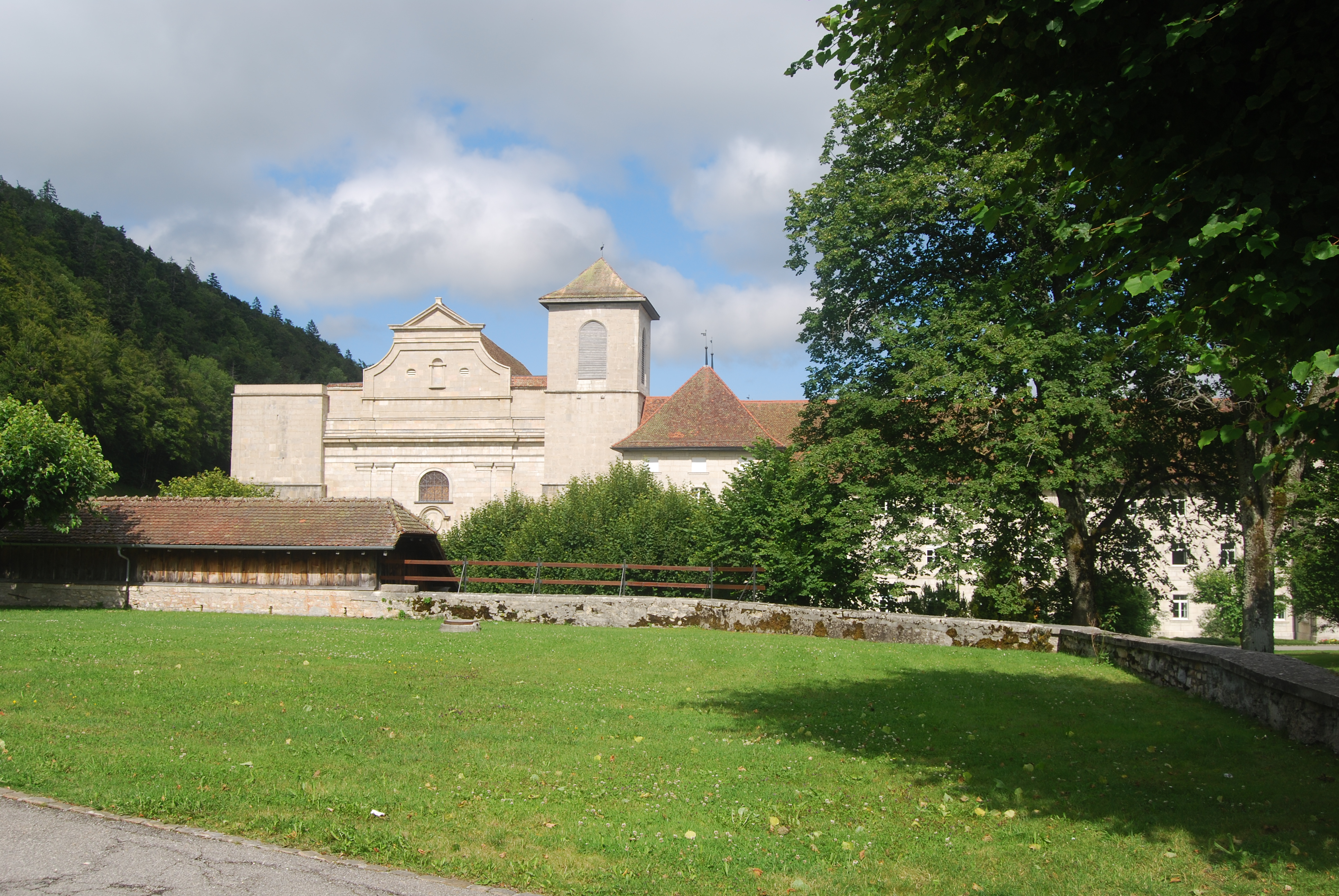 Abbey of Bellelay, municipality of Saicourt, canton of Bern, SwitzerlandEsperanto: Abatejo de Bellelay, komunumo Saicourt, Kantono Berno, Svislando